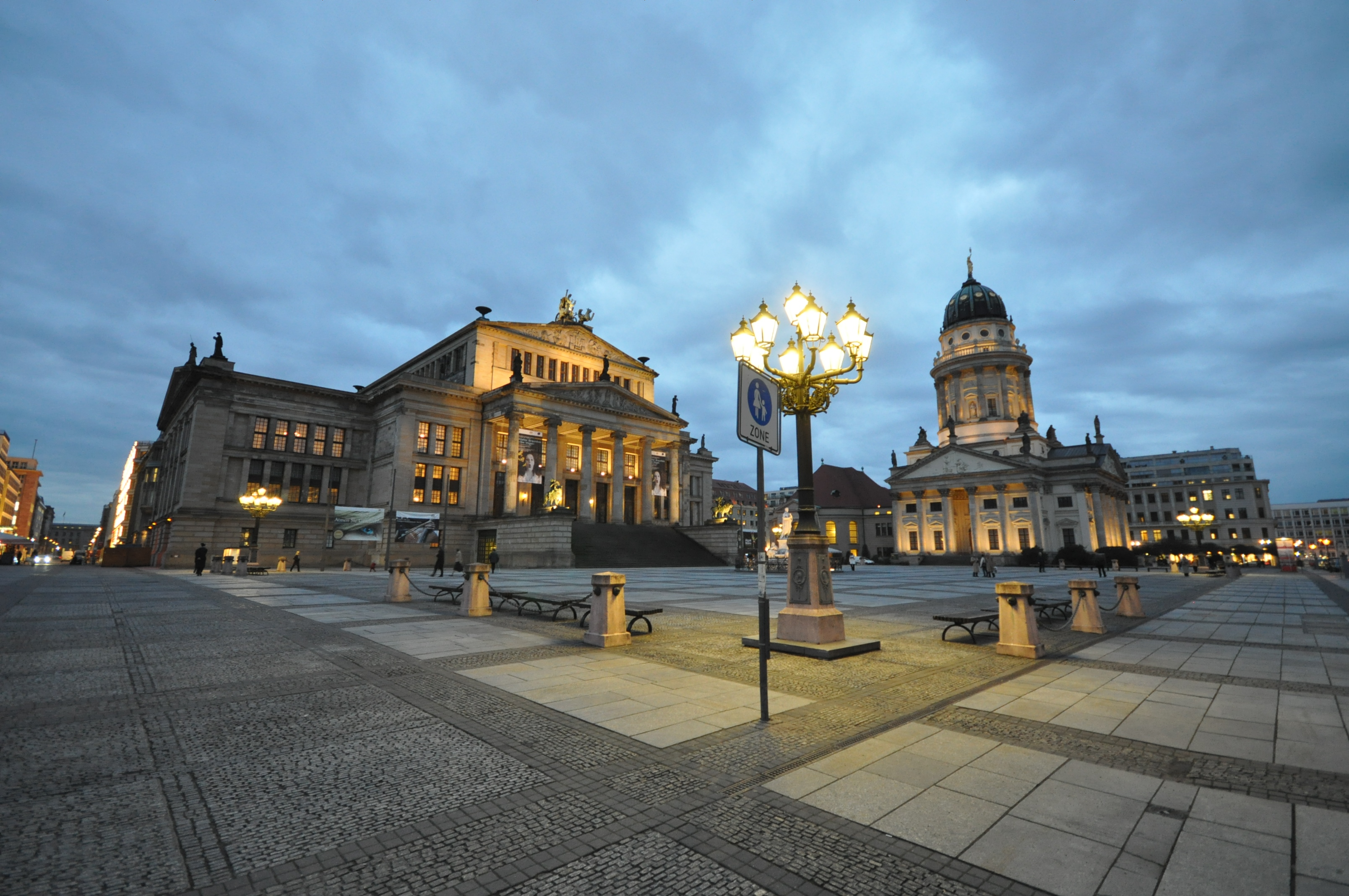 The Gendarmenmarkt is a square in Berlin, and the site of the Konzerthaus and the French and German Cathedrals. The centre of the Gendarmenmarkt is crowned by a statue of Germany's poet Friedrich Schiller. The square was created by Johann Arnold Nering at the end of the seventeenth century as the Linden-Markt and reconstructed by Georg Christian Ungerin 1773. The Gendarmenmarkt is named after the cuirassier regiment Gens d'Armes, which was deployed at this square until 1773. Gendarmenmarkt in Berlin During World War II most of the buildings were badly damaged or destroyed. Today all the buildings are restored to their former state